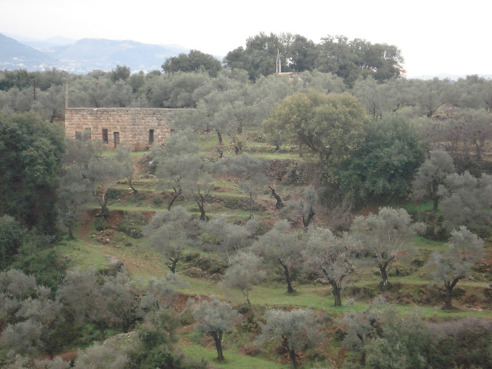 Olive orchard in Asnoun, the Mount Lebanon Range foothills, northern Lebanon.